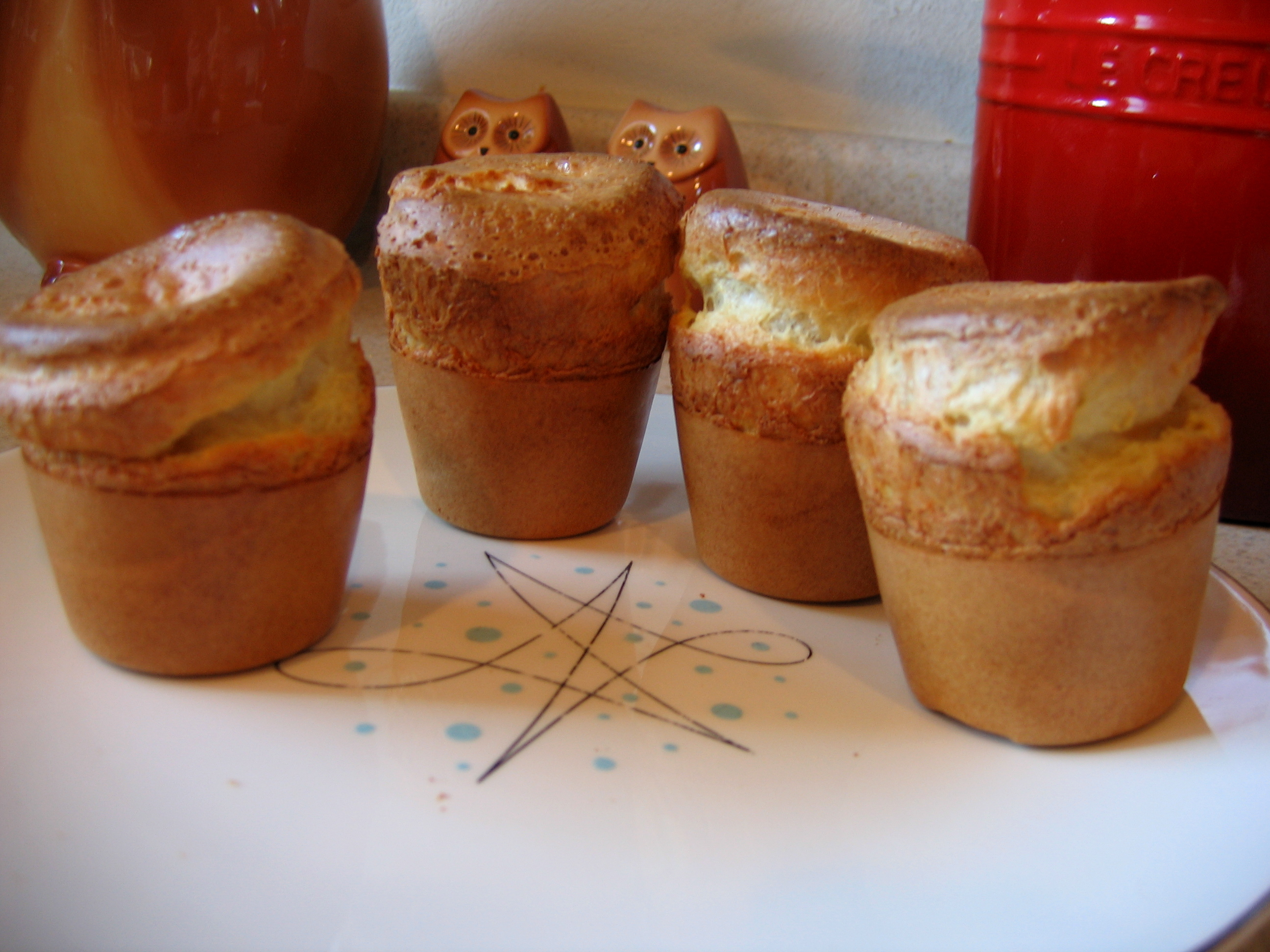 I had to quit my crappy job so I could go home for Christmas. I quit a little early, so that means I get to take the time to make popovers.